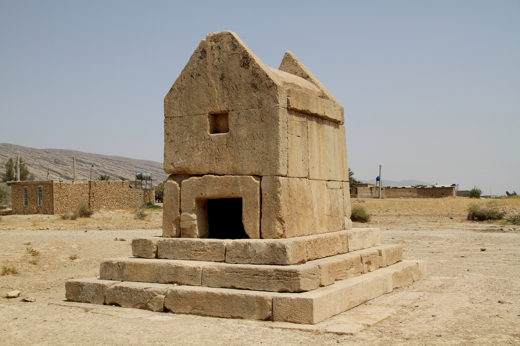 Gur e dokhtar, possibly the tomb of Cyrus I. also may be the tomb of cyrus the younger or another pre-cyrus achaemenid king